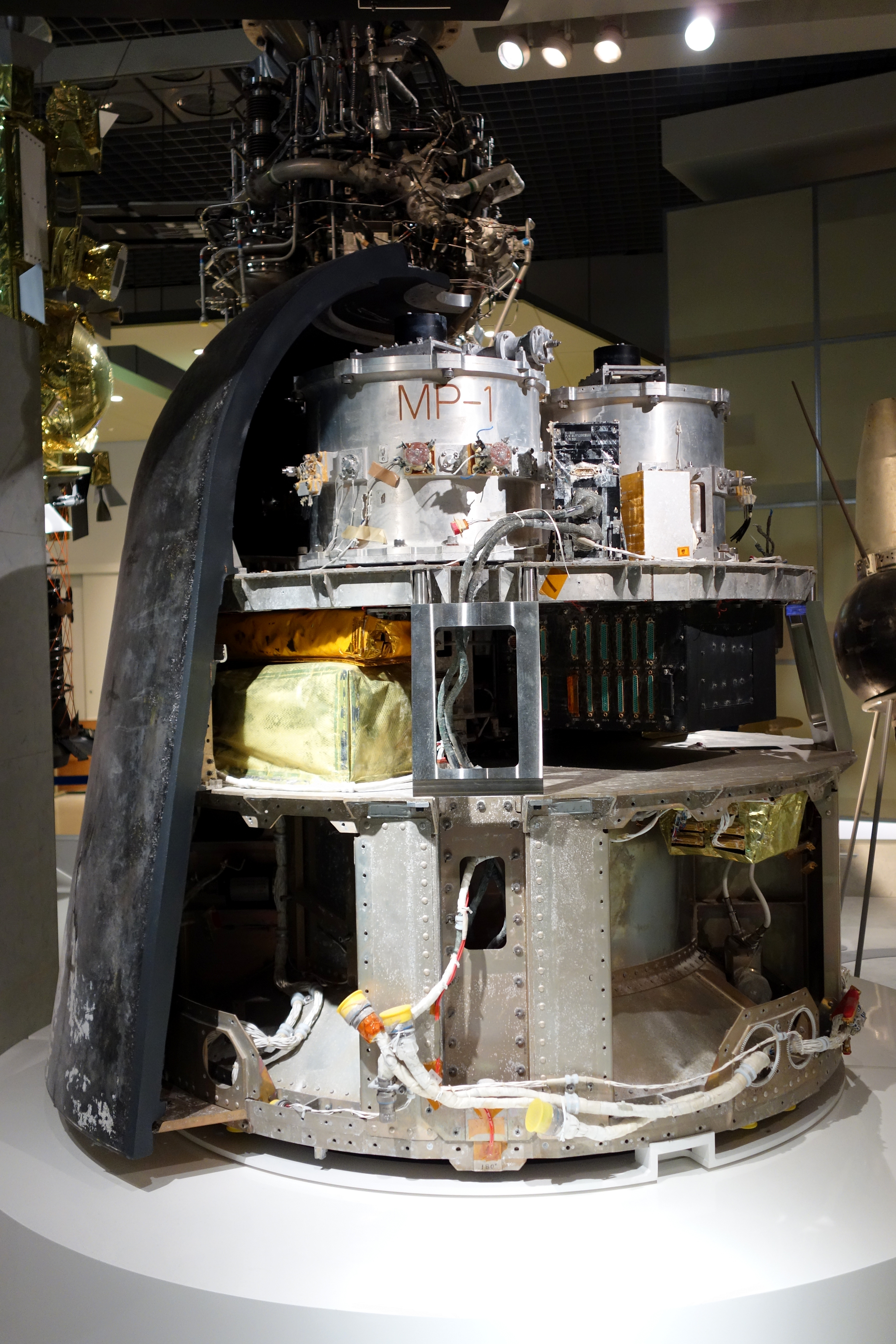 Exhibit in the National Museum of Nature and Science, Tokyo, Japan.